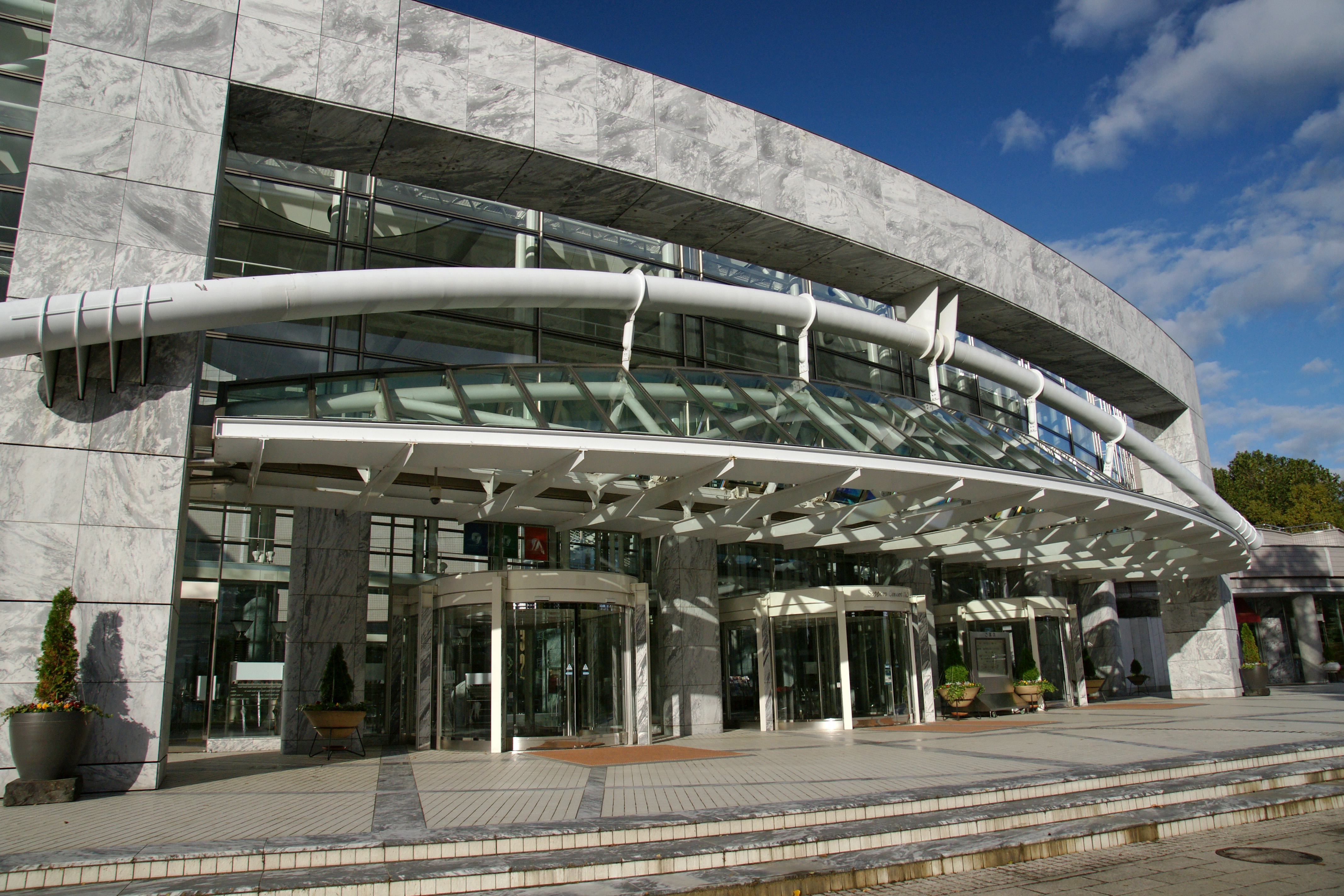 Sapporo Concert Hall Kitara, Sapporo, Hokkaido prefecture, Japan